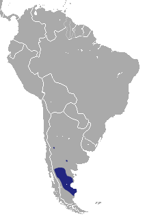 Patagonian Opossum (Lestodelphys halli) range